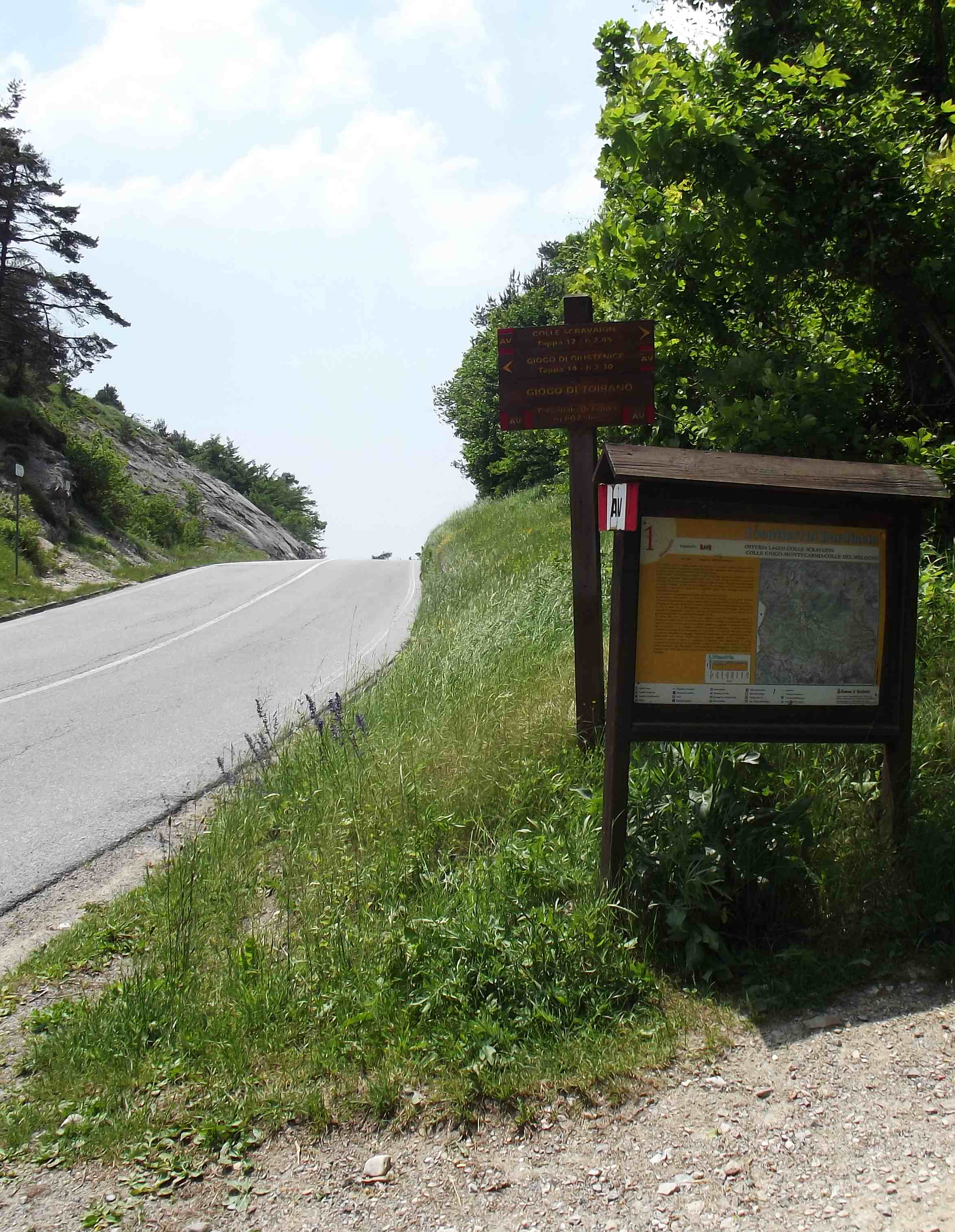 Giogo di Toirano (SV, Italy) from its Bormida side